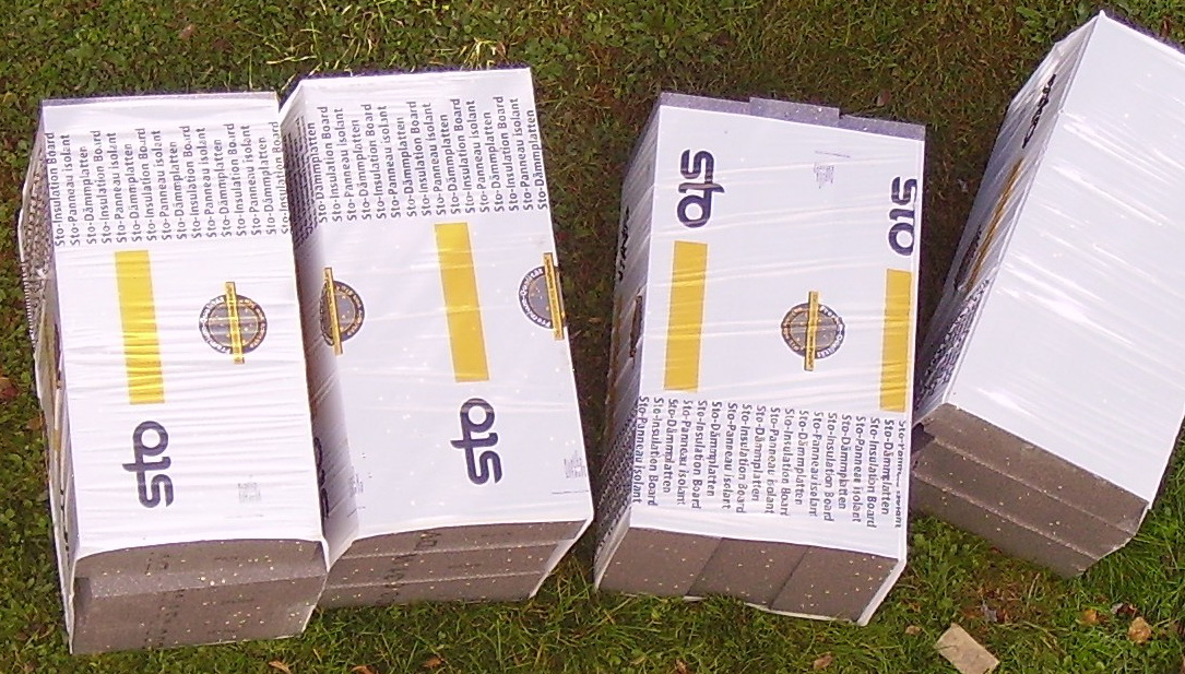 Insulation boards by Sto.